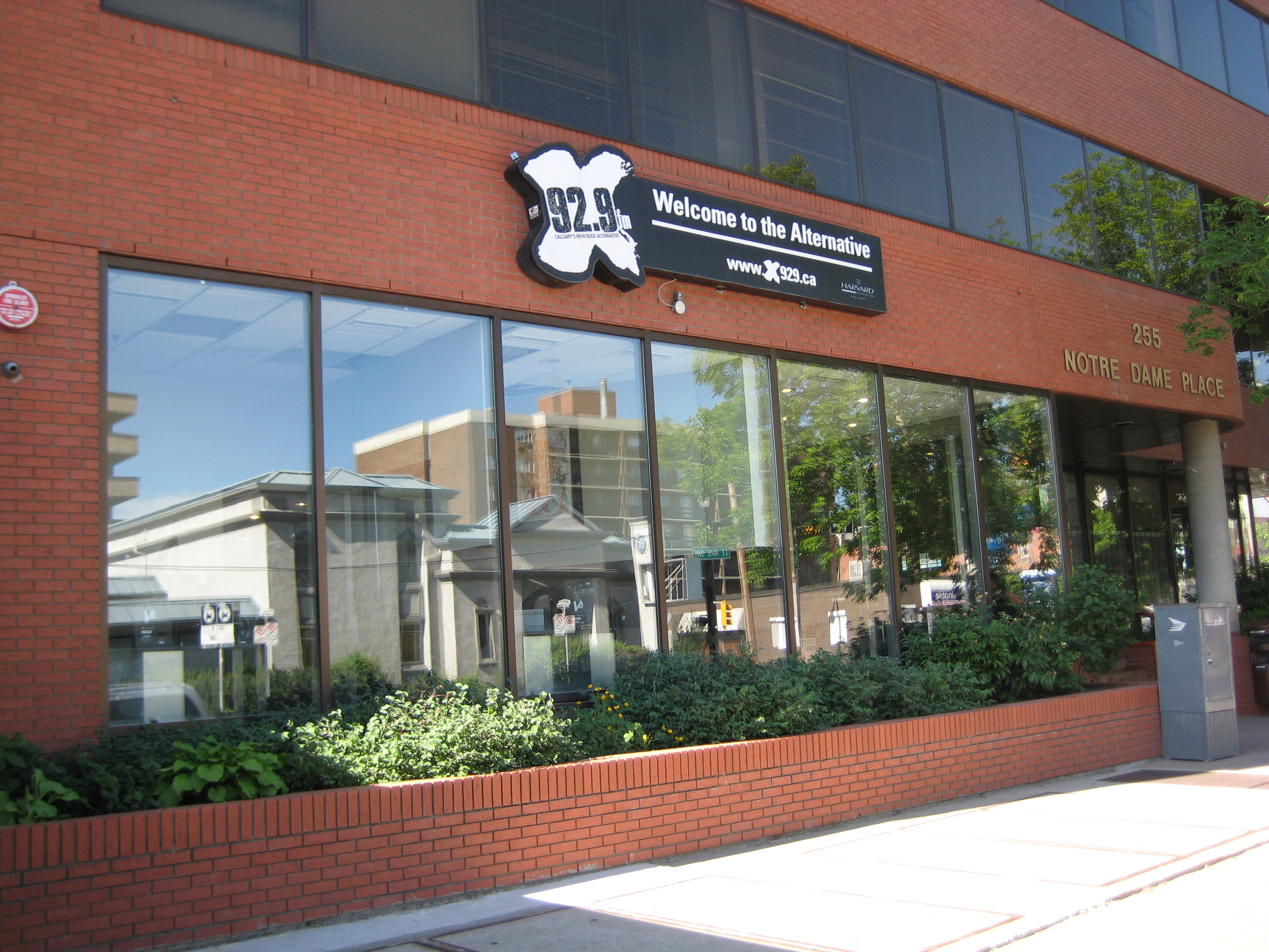 Image of X92.9 studios on 17th Ave in Calgary